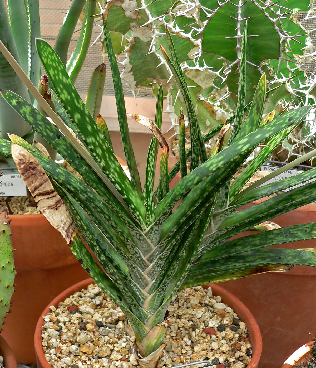 Gasteria bicolor var. bicolor at the University of California Botanical Garden, Berkeley, California